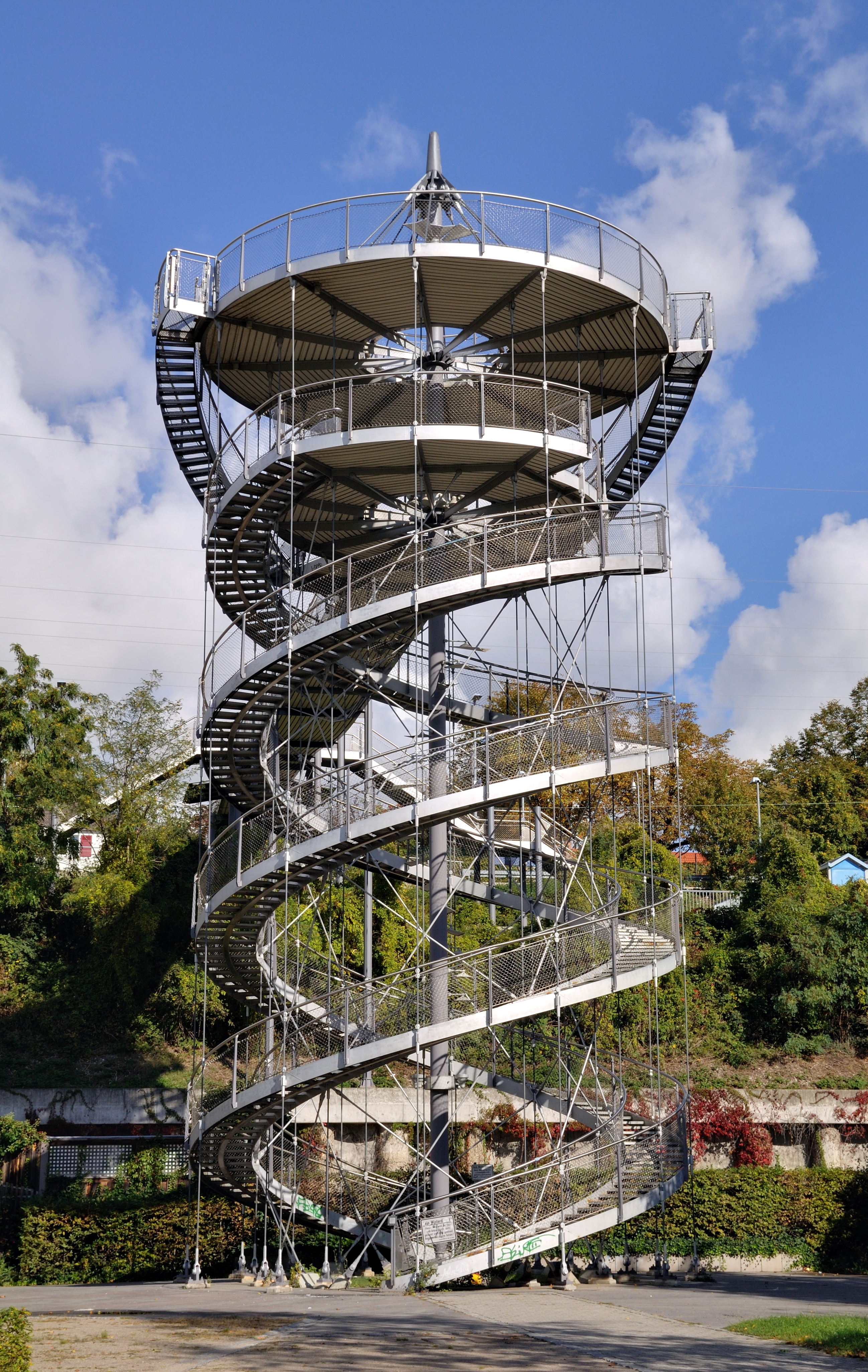 Weil am Rhein: Schlaich tower